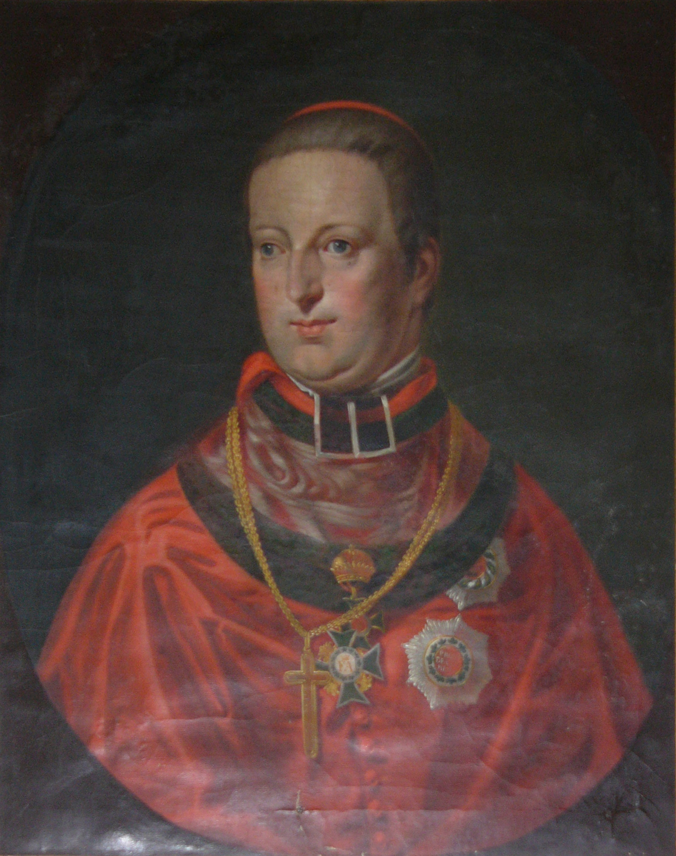 Paintings of archbishop of Olomouc Rudolf Jan in St. Wenceslaus cathedral in Olomouc (Czech Republic).